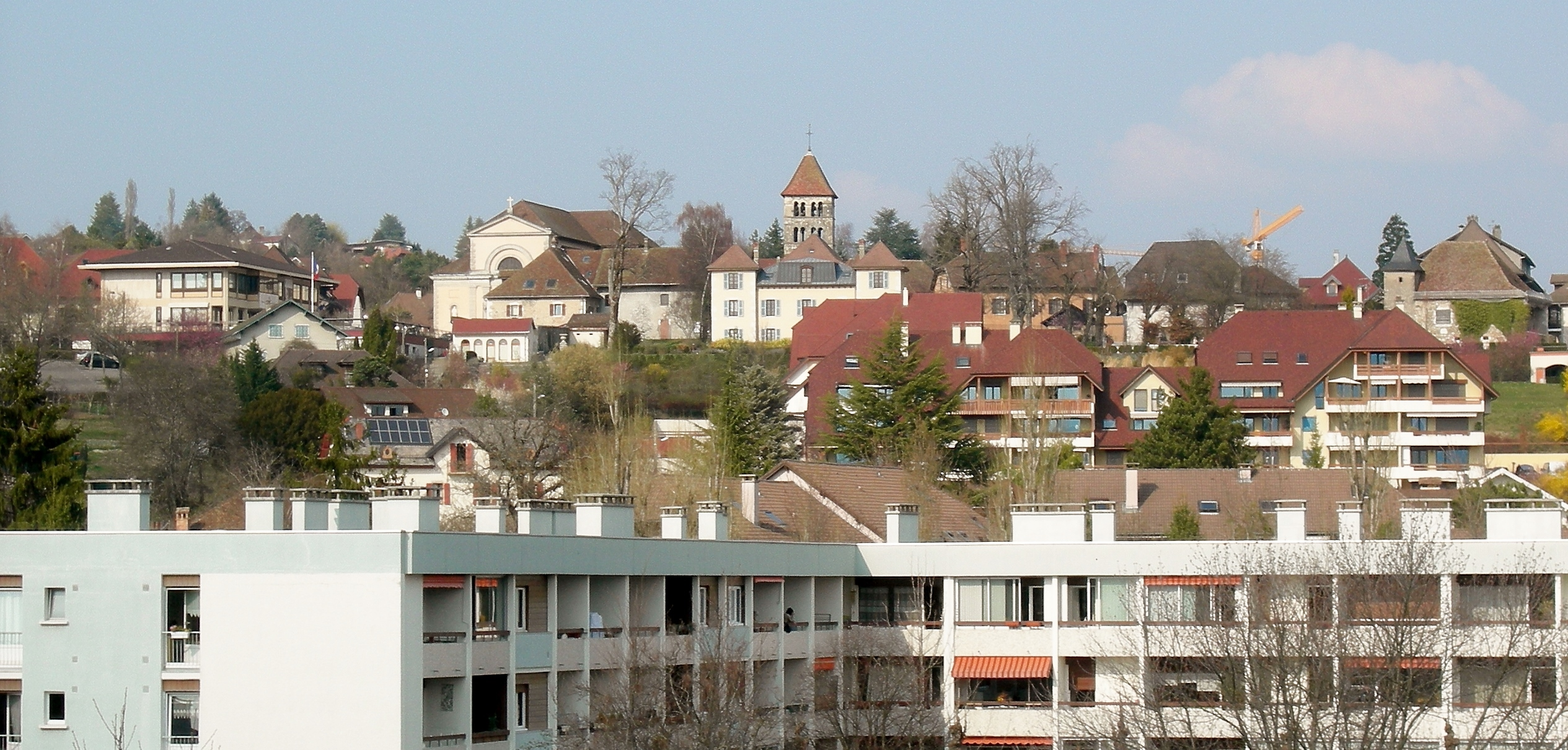 On the top of the hill, the principal place of Annecy-le-Vieux (Haute-Savoie, France) overlooks the Clarines'neighborhood. From left to right : - On the far left, Annecy-le-Vieux City hall - Church of Saint-Laurent - Annecy-le-Vieux's bell tower (romanesque art) - Below the bell tower, the house where Gabriel Fauré lived in - On the far right, La Pesse Castle.